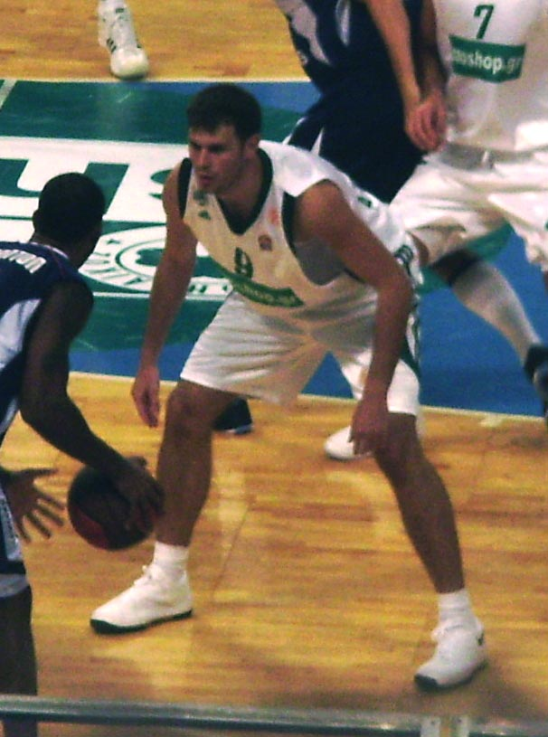 PAO Efes Pilsen OAKA stadium